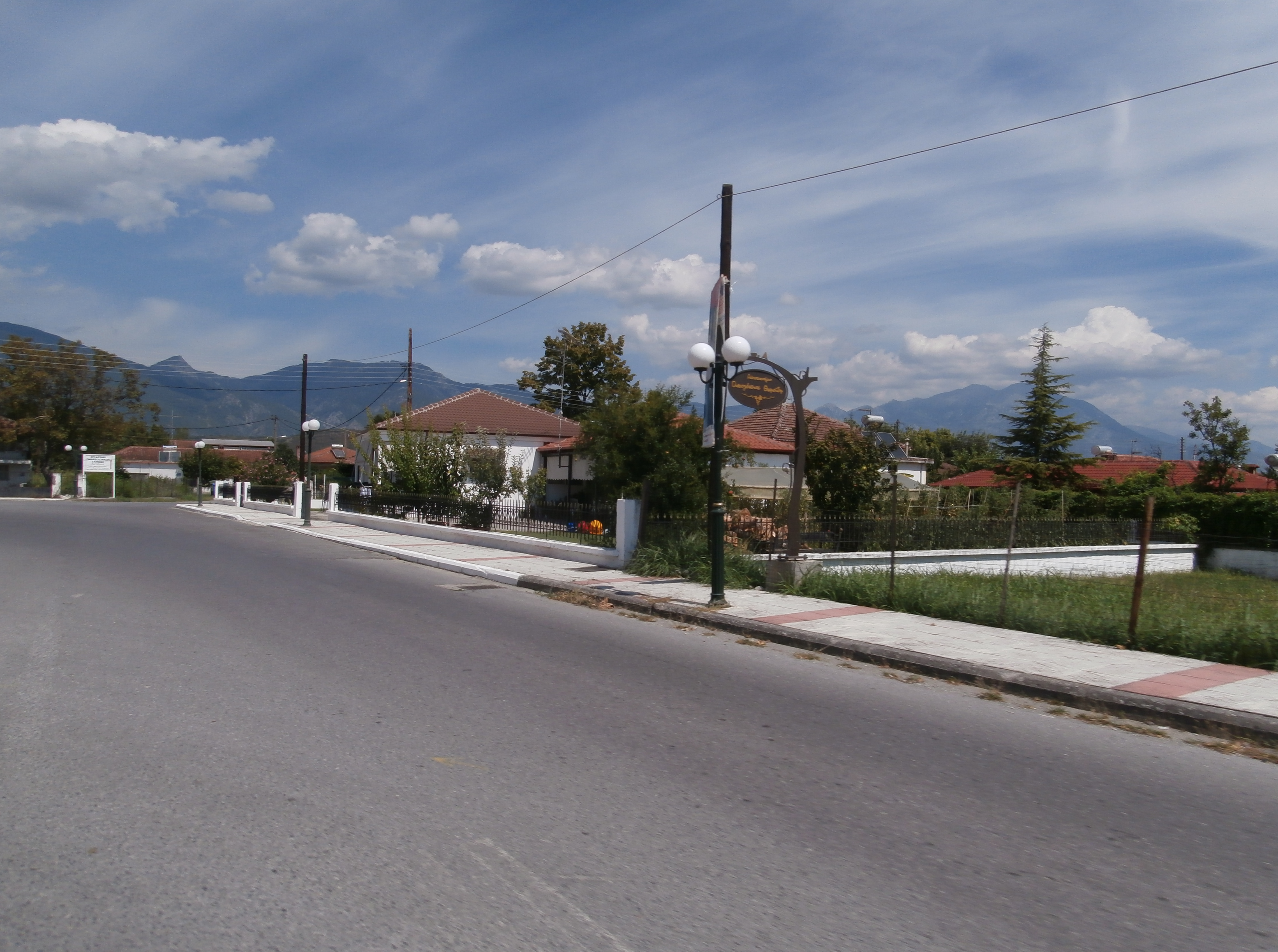 View of Piperies from the central road.